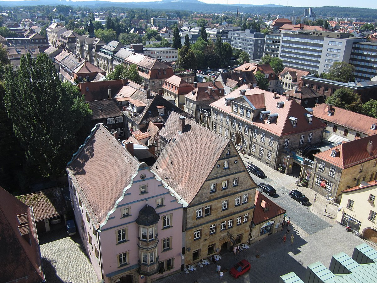 Friedrichstraße Bayreuth with Steingraeber-Haus on the right, Senckendorffer and Nanckenreuther Burggut in the foreground